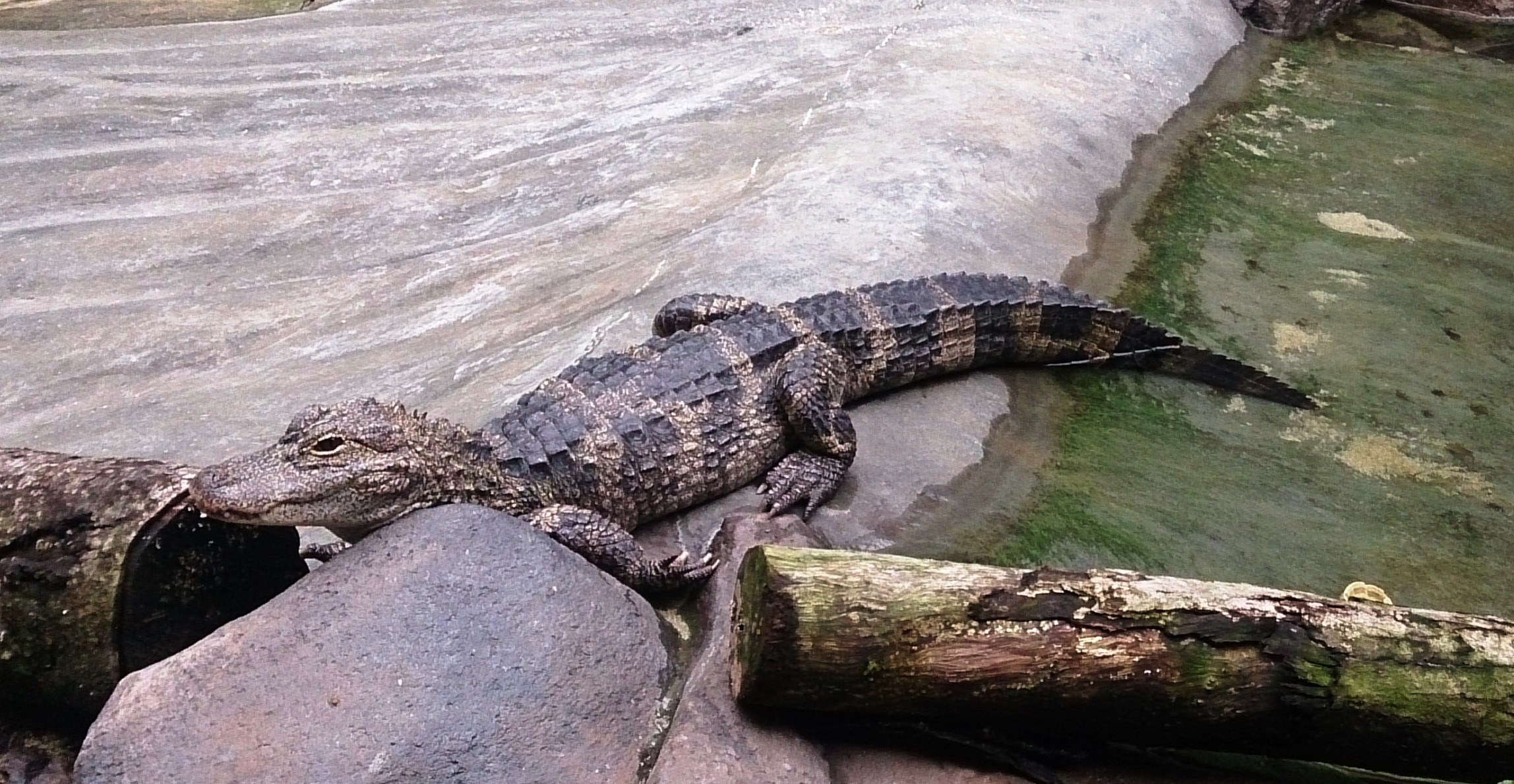 cute Chinese alligator (Alligator sinensis) spotted